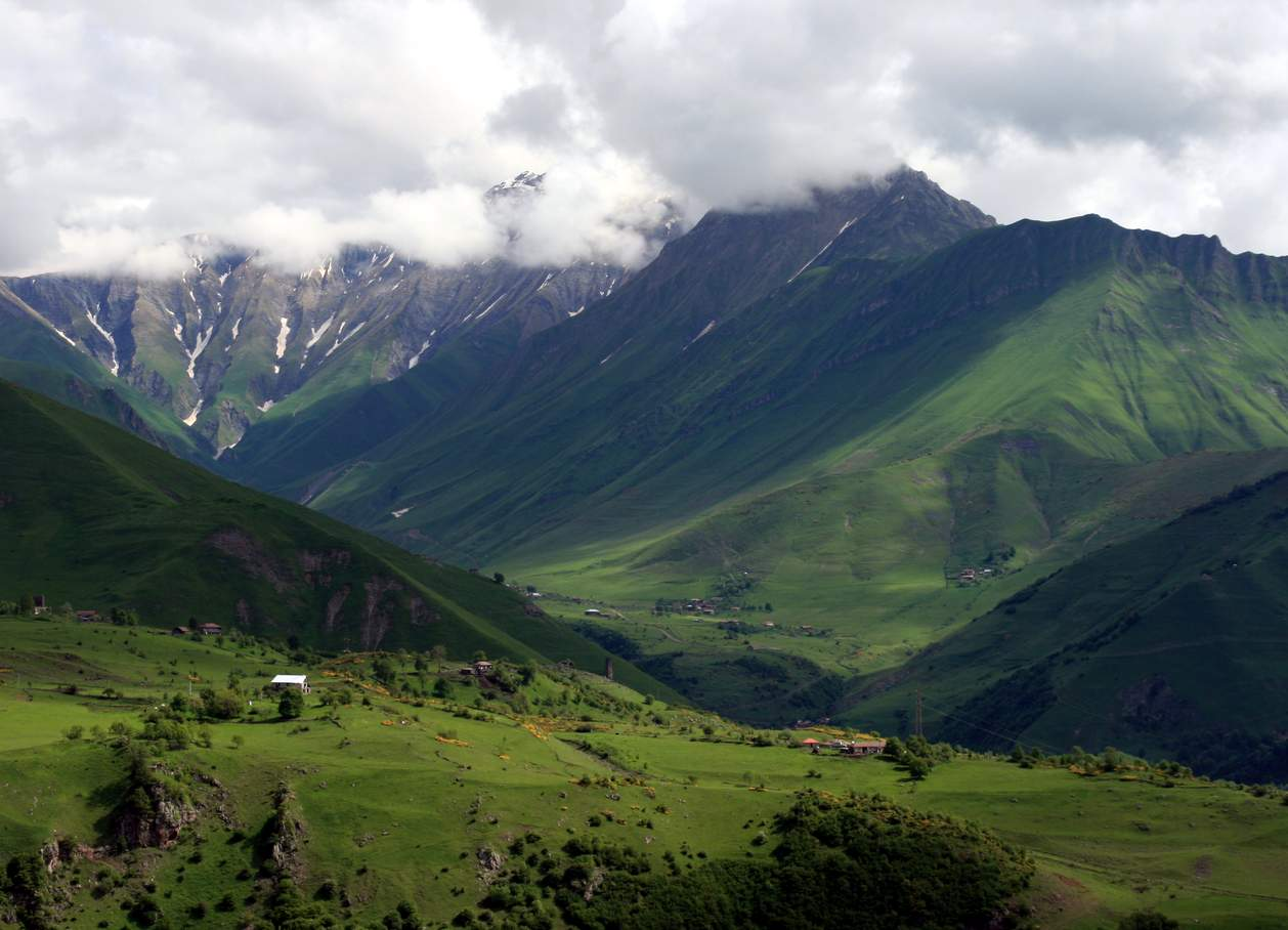 Khada Gorge as seen from Mt Lomisi.